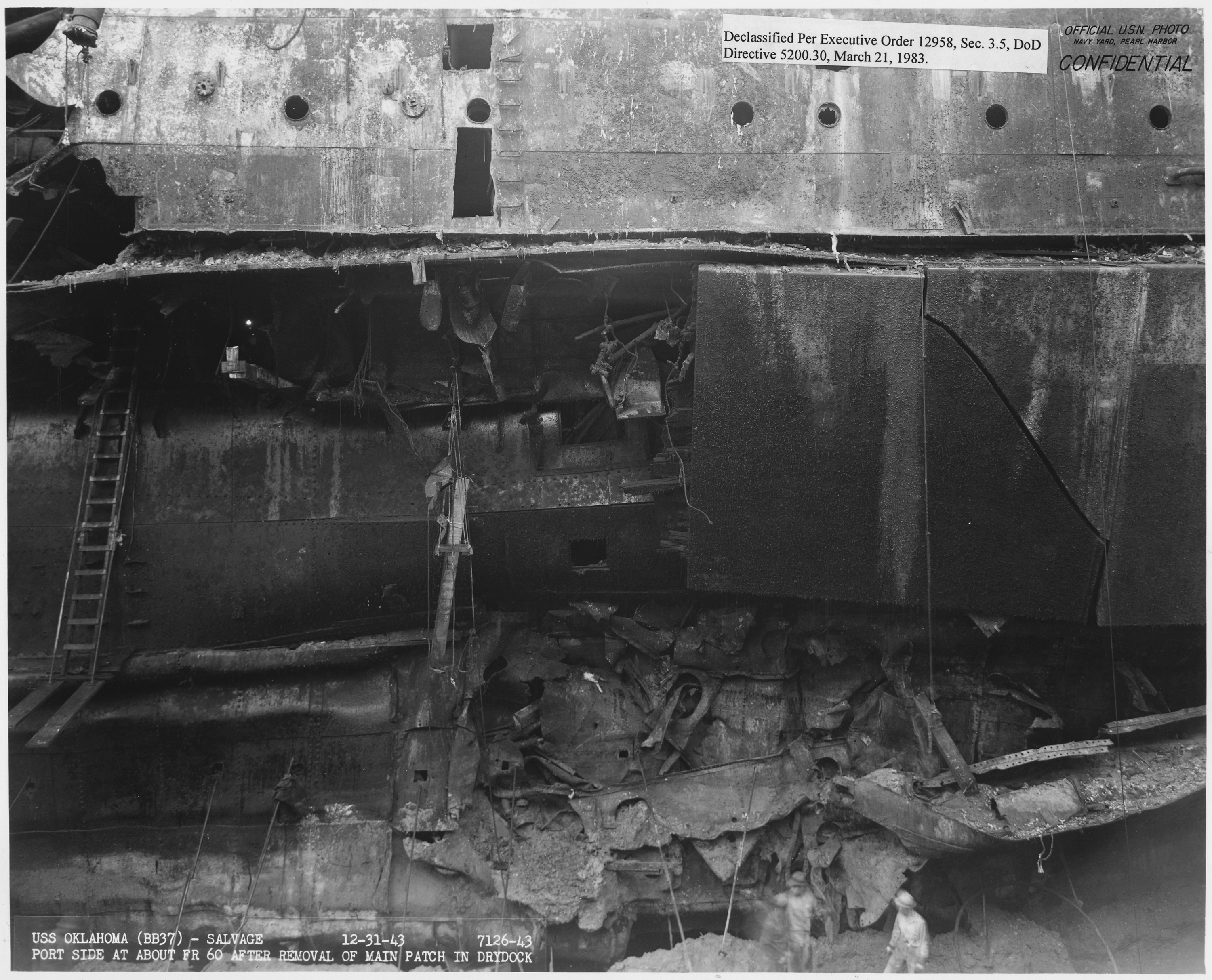 Scope and content: This is one of a collection of photographs of salvage operations at Pearl Harbor Naval Shipyard taken by the shipyard during the period following the Japanese attack on Pearl Harbor which initiated US participation in World War II. The photographs are found in a number of files in several shipyard records series.